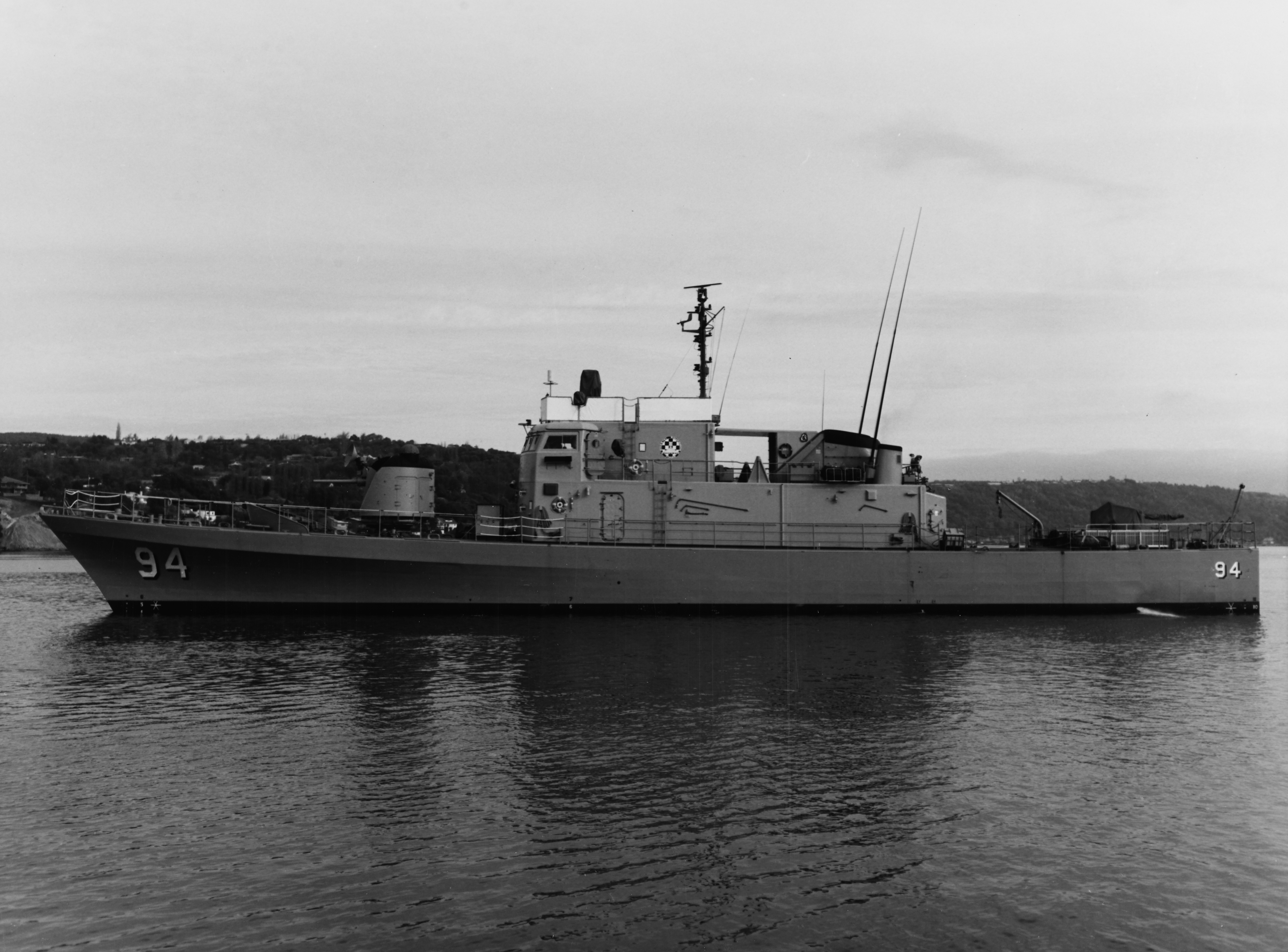 The U.S. Navy patrol gunboat USS Chehalis (PG-94) off Tacoma, Washington (USA), 3 November 1969.